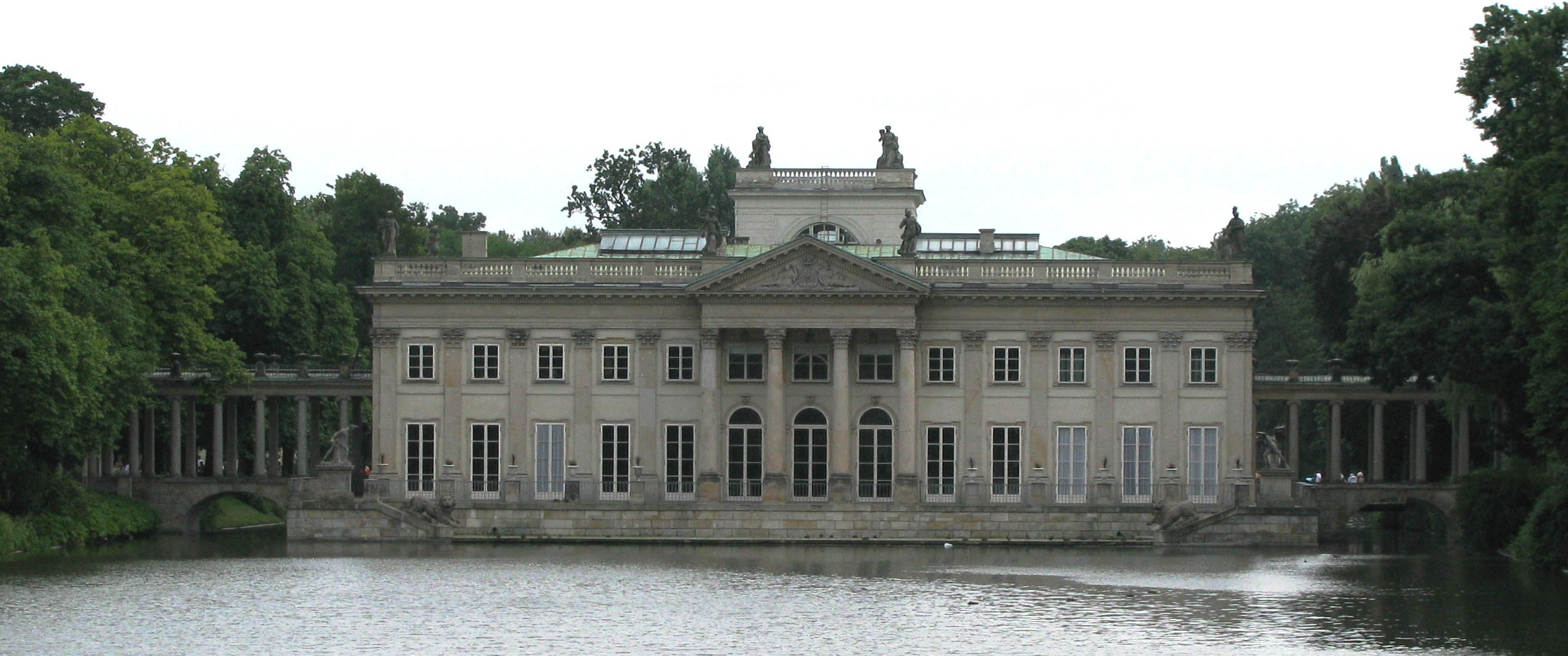 Łazienki Park (Park Łazienkowski or Łazienki Królewskie, literally Baths Park or Royal Baths) is the largest park in Warsaw (Warszawa), Poland, occupying seventy-six hectares of the city center. The park-and-palace complex lies in Warsaw's Downtown (Śródmieście), on Ujazdów Avenue (Aleje Ujazdowskie) on the "Royal Route" linking the Royal Castle with Wilanów palace to the south.